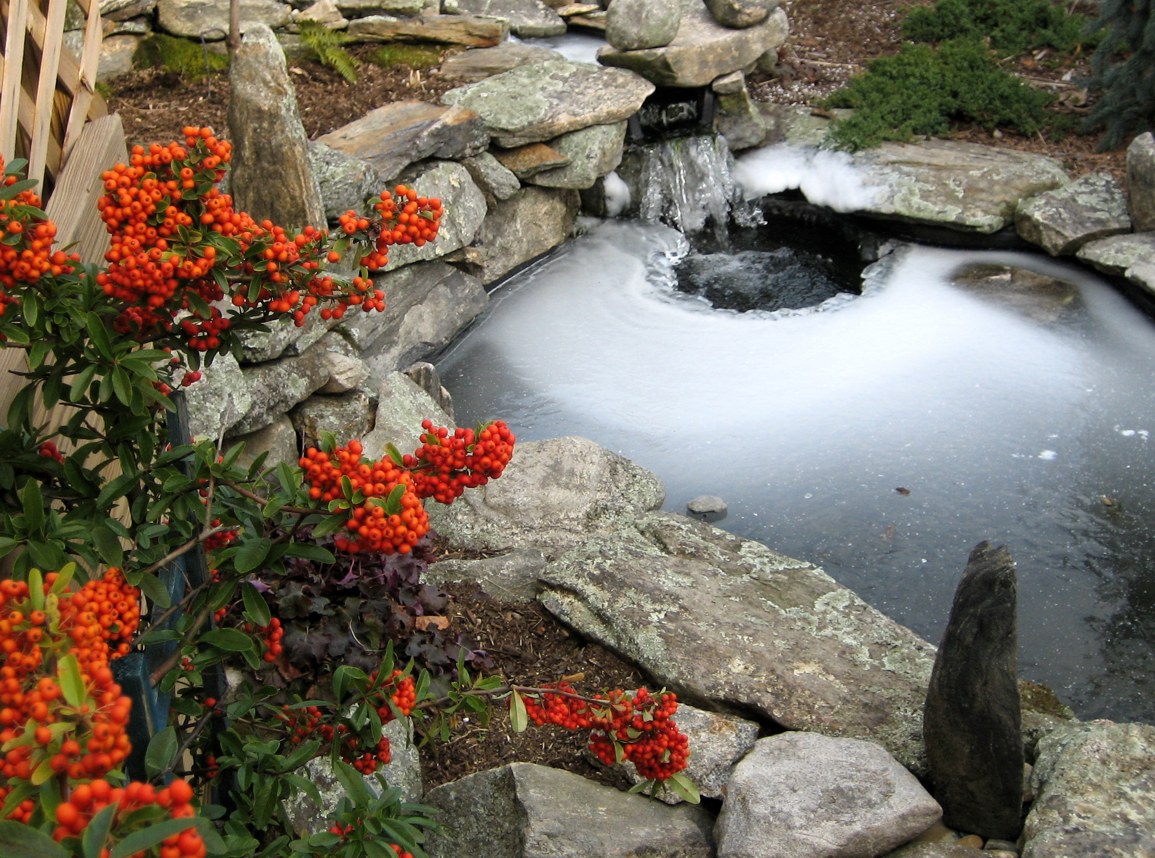 Fish pond in winter